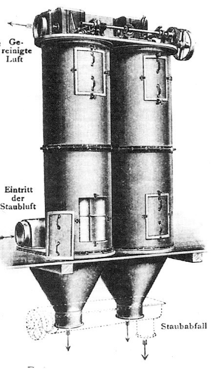 Image showing a „Beth“-Filter „KS“